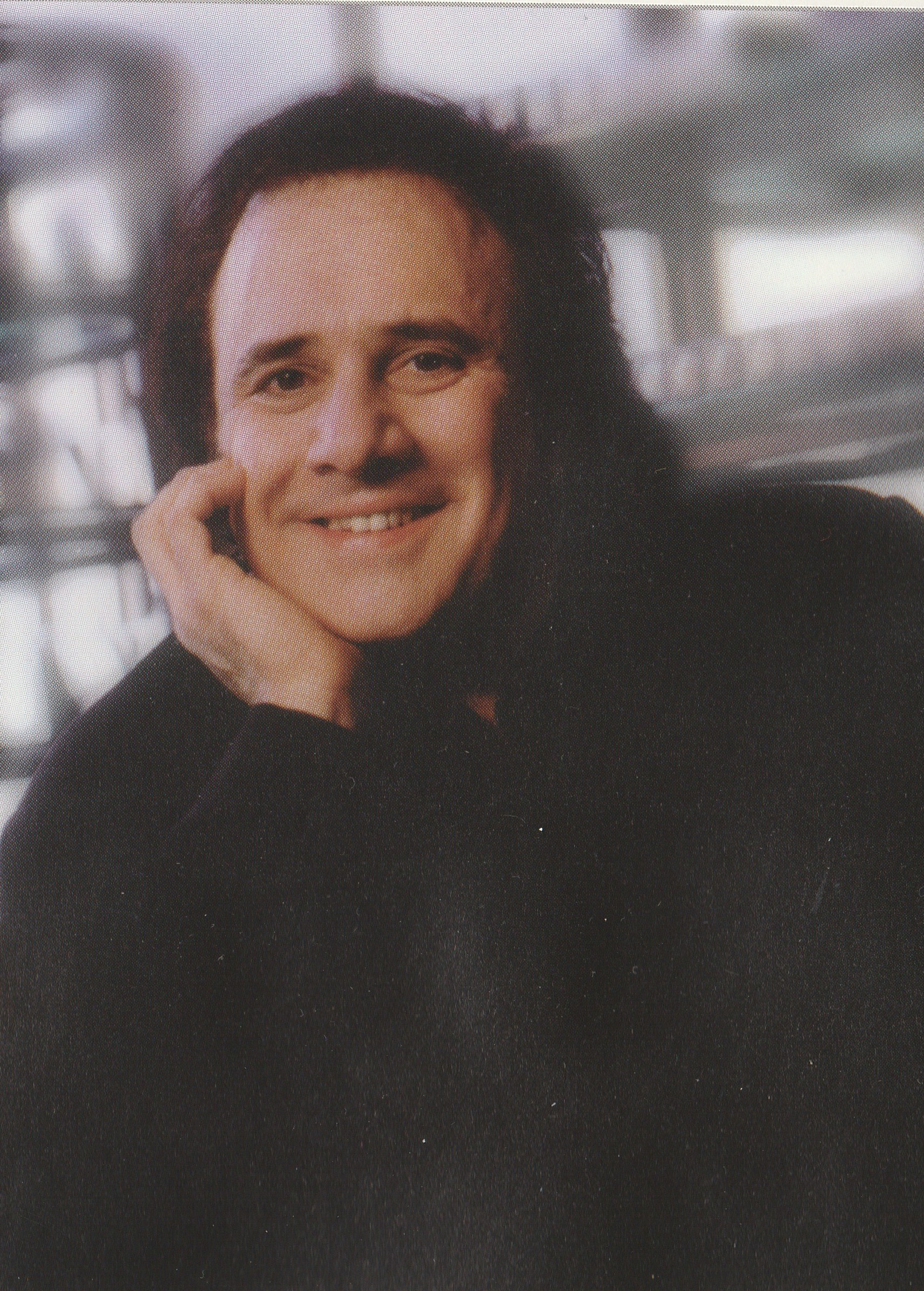 Michael’s dear childhood friend, Frank Angelo, co-founder of MAC Cosmetics, Inc Michael Laucke was original founding director and Honorary charter member of the Board of Directors of the MAC AIDS Foundation (Estée Lauder) in association with the Elton John AIDS Foundation.